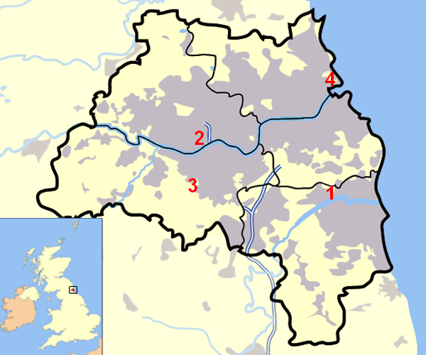 Graphic depiction of the general position of the castles in Tyne and Wear